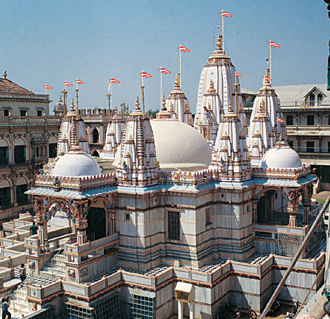 Photo of Temple